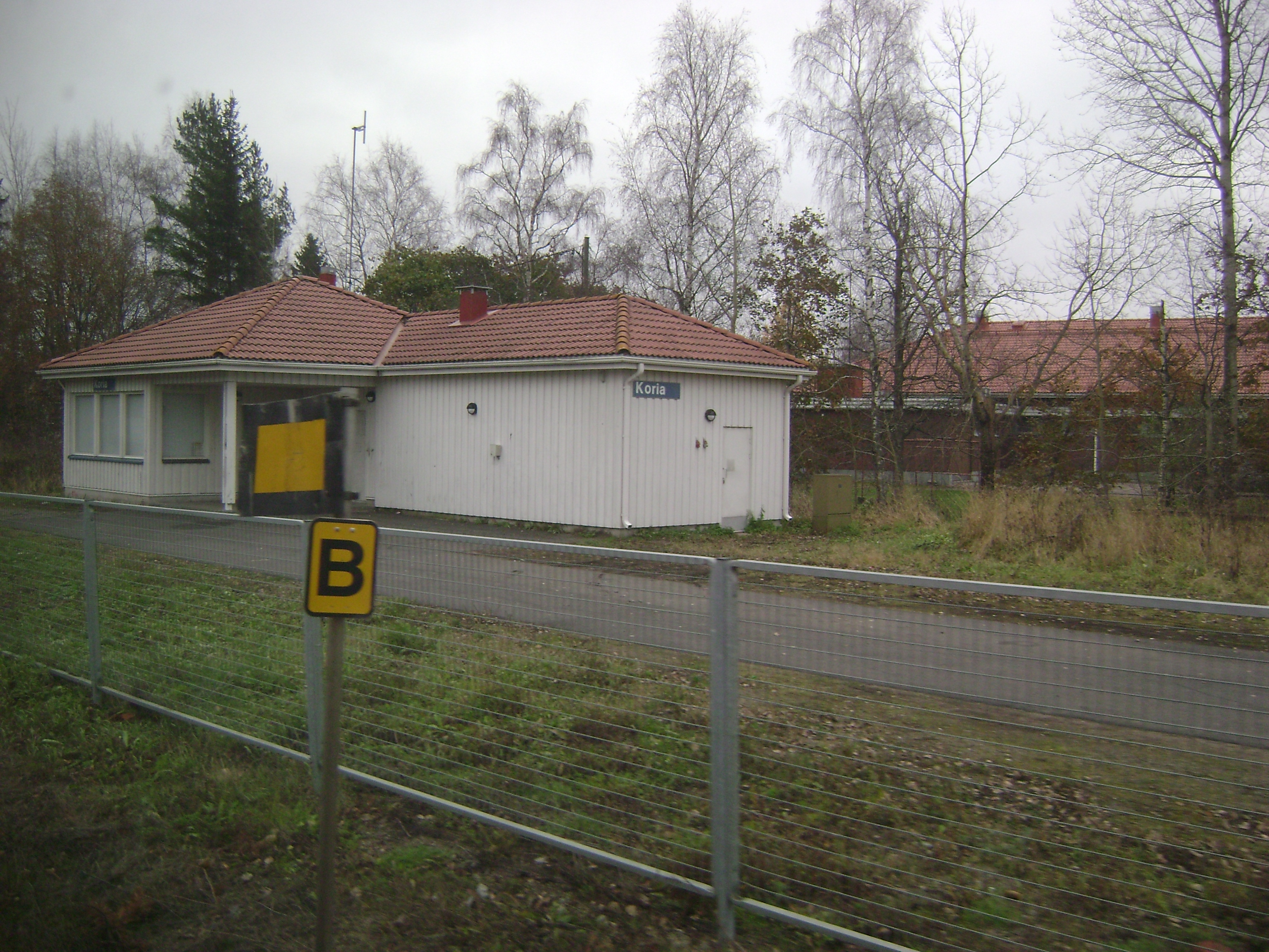 Railway station of Koria, Finland.